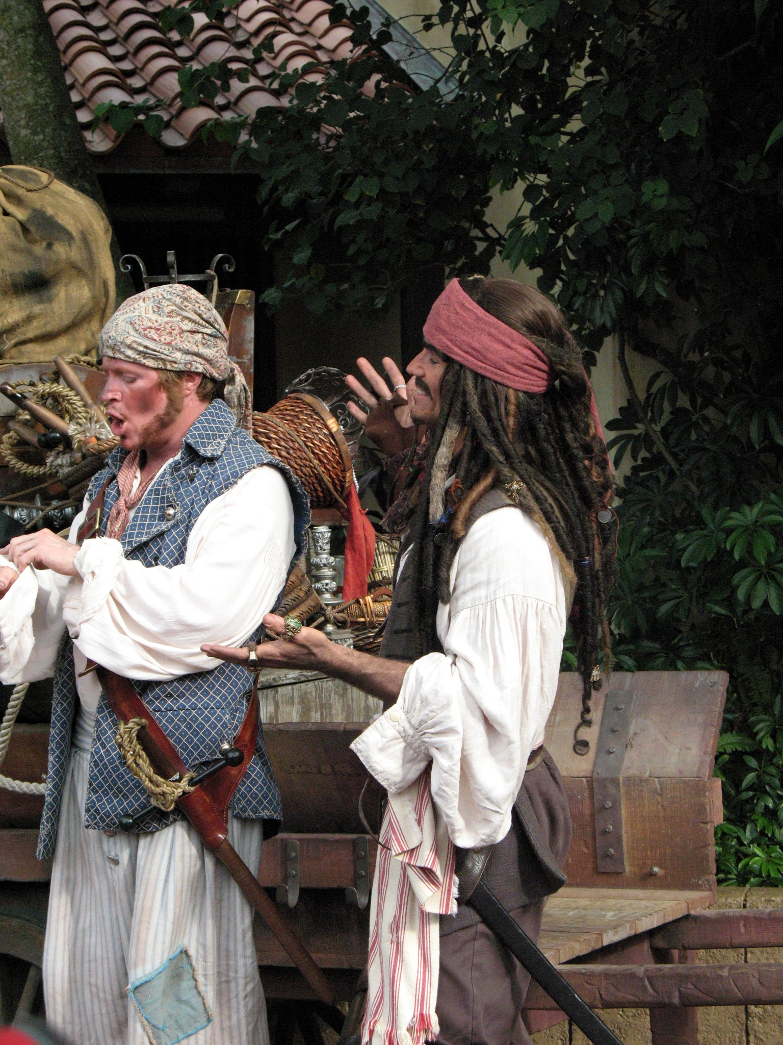 A movie "Pirates of the Caribbean" imitators (Disneyworld: Magic Kingdom, Florida, USA)